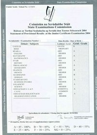 the page a student gets upon receiving their Junior Certificate results Junior_Certificate